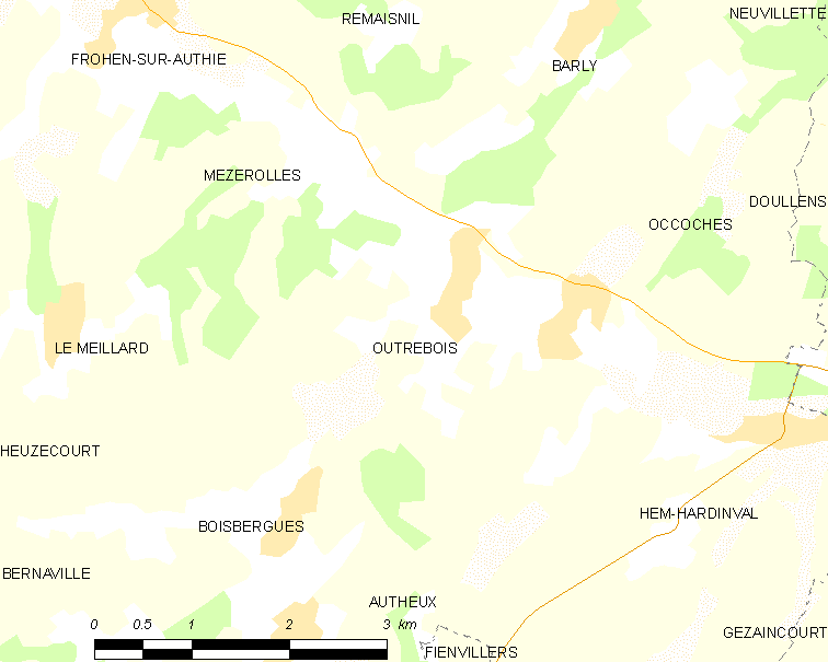 Map of French municipality Outrebois